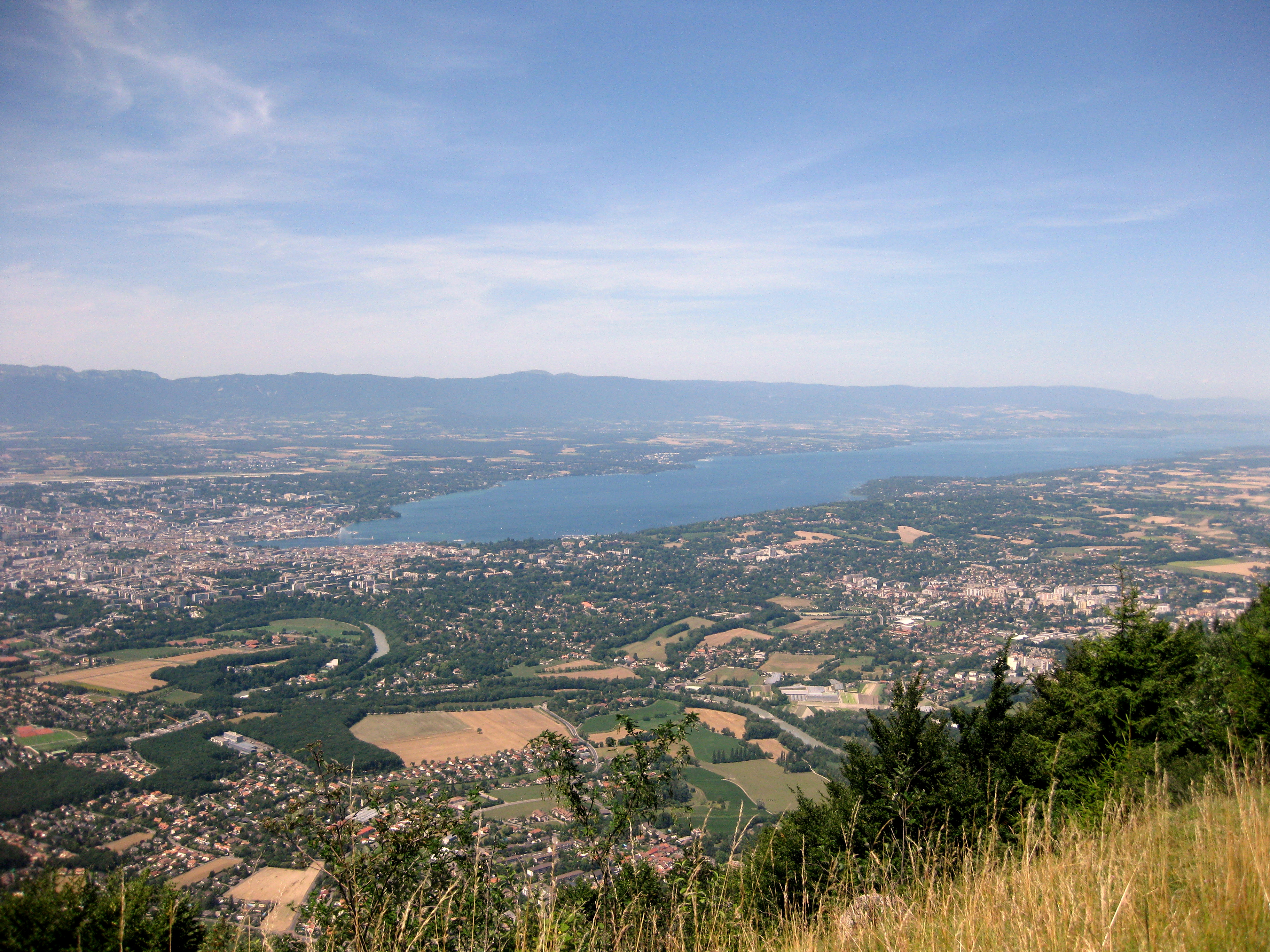 IXS_7660